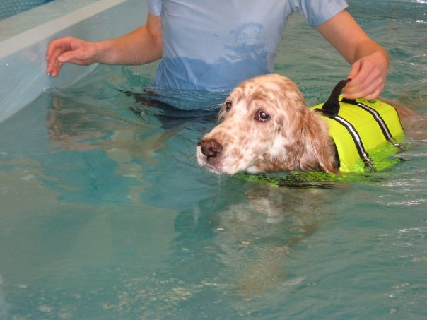 A dog on an underwater treadmill at an animal physical therapy practice.